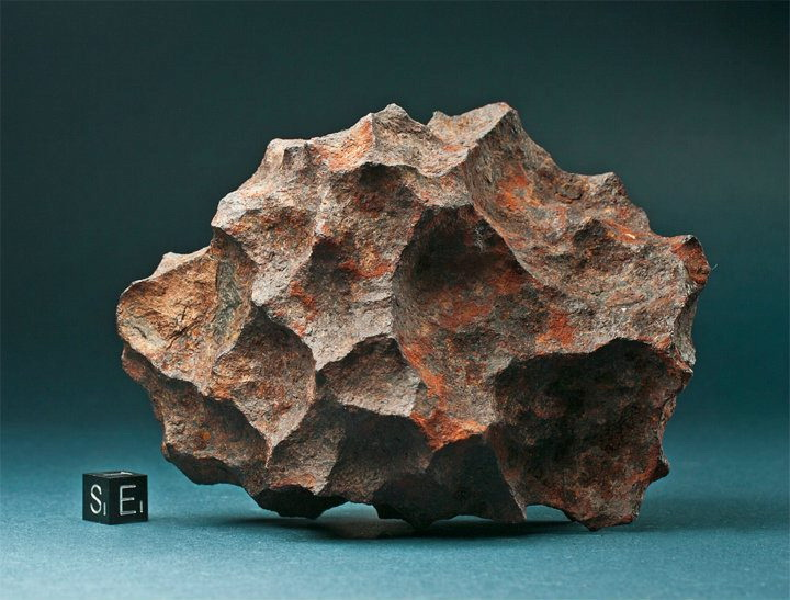 Henbury meteorite of 1,740 g. The compact specimen exhibits sharp edges and exaggerated regmaglypts due to subsurface erosion. Scale cube at lower left of image is 1 cm on each edge (marked with white "S" and "E").